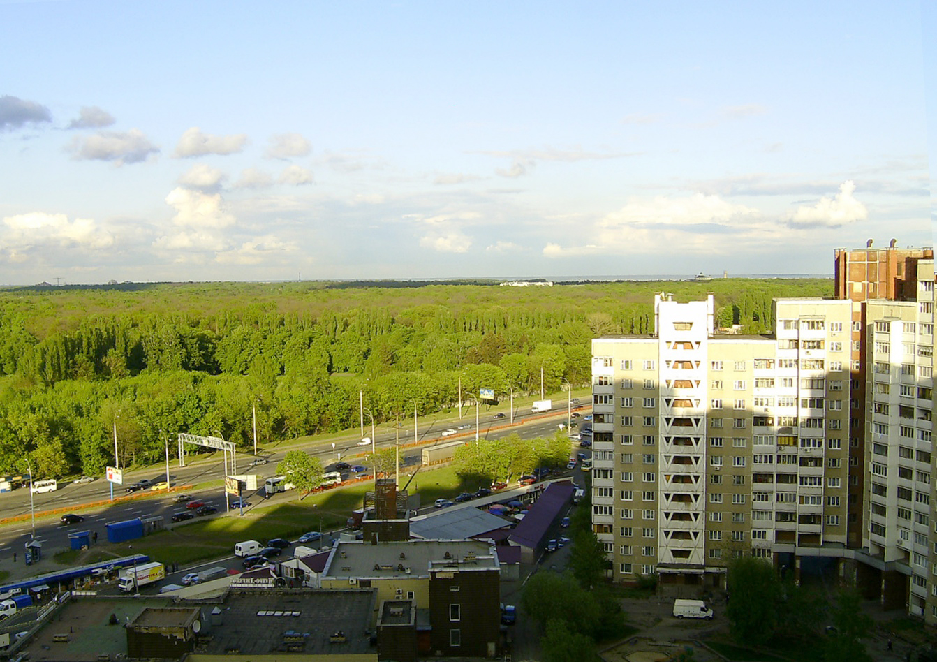 Akademika Zabolotnoho Street in Kyiv, Ukraine